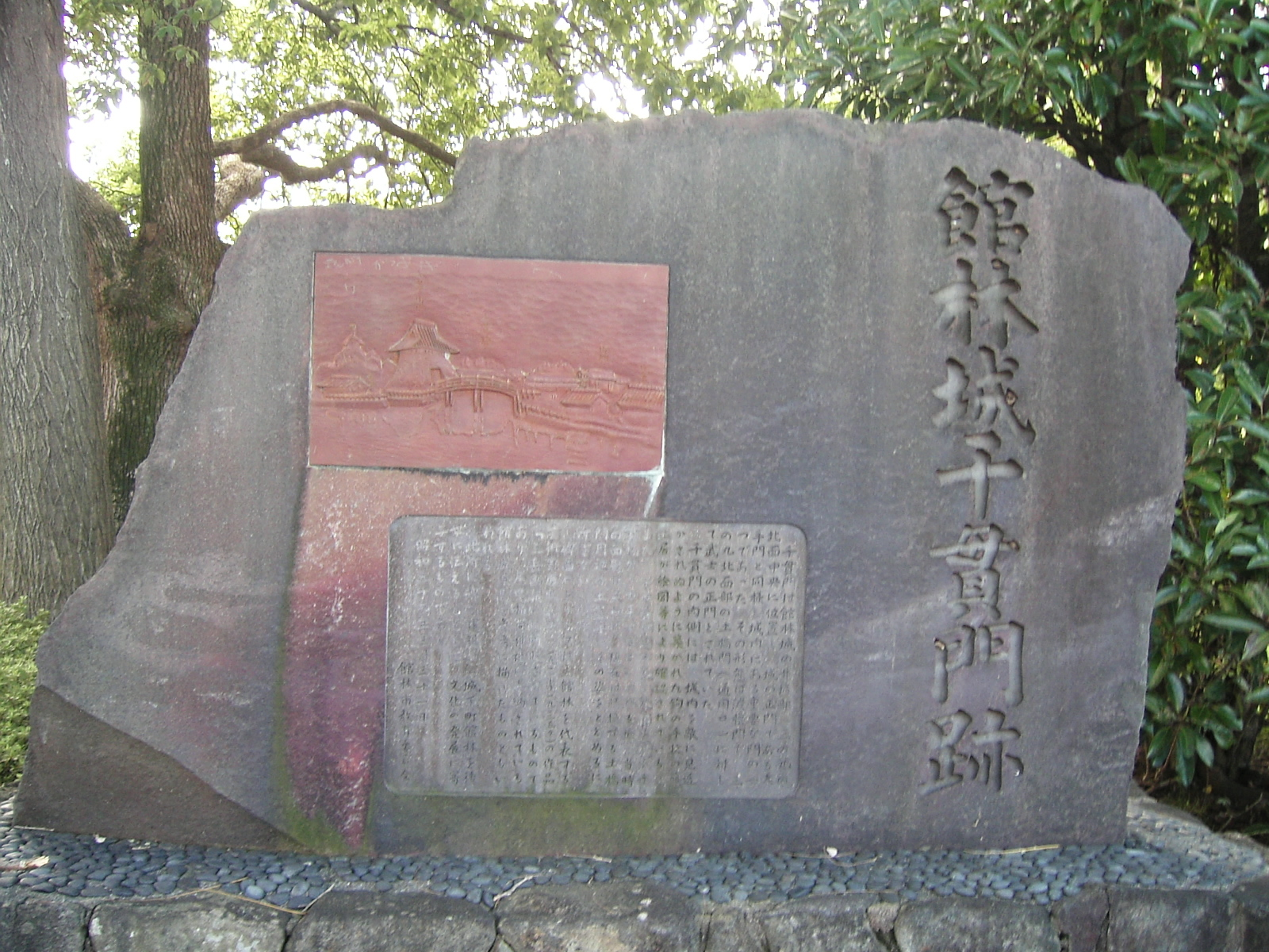 The relief is a work of Yoshio Fujimaki(1911-35?) who was born in Tatebayashi.